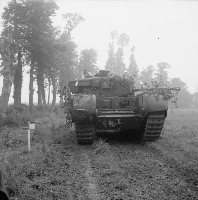 The British Army in Normandy 1944 Churchill tank of 7th Royal Tank Regiment, 31st Tank Brigade, during Operation 'Epsom'.